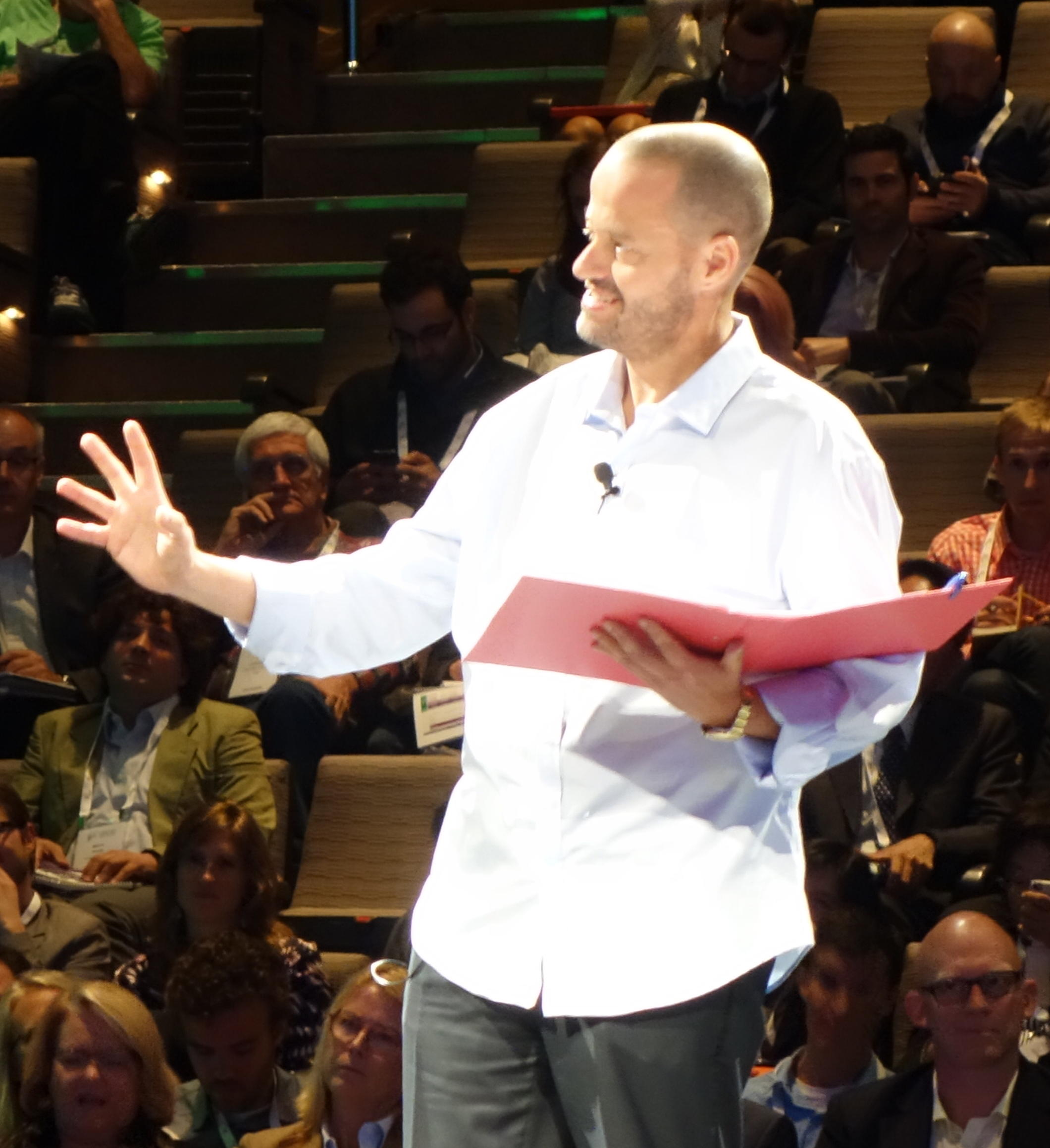 Adam Spencer (derivative from File:Mikael Colville-Andersen 255.JPG